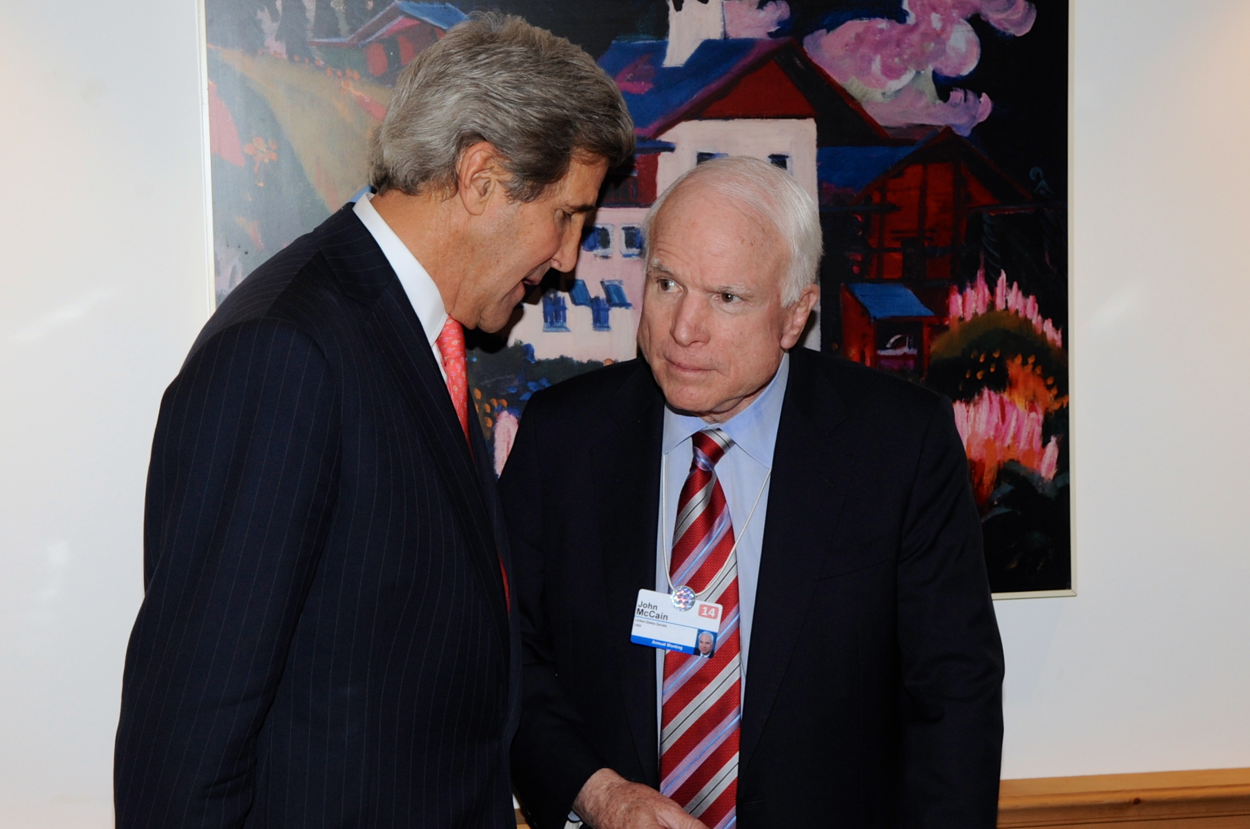 U.S. Secretary of State John Kerry chats with Senator John McCain of Arizona during a dinner hosted by Coca-Cola CEO Muhtar Kent on the sidelines of the World Economic Forum in Davos, Switzerland, on January 23, 2014.[State Department photo/ Public Domain]